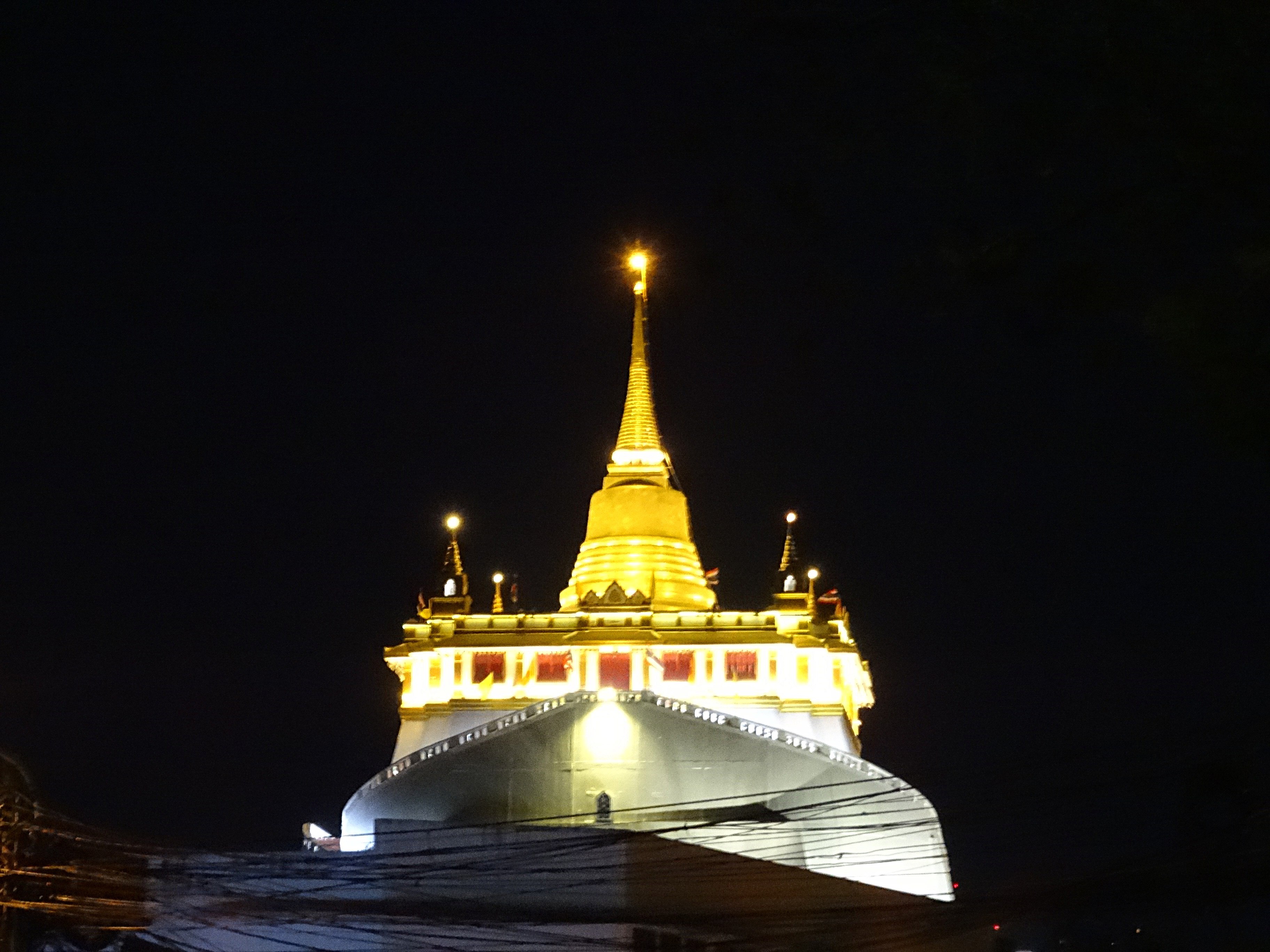 Golden Mount of Wat Saket (Bangkok) at night